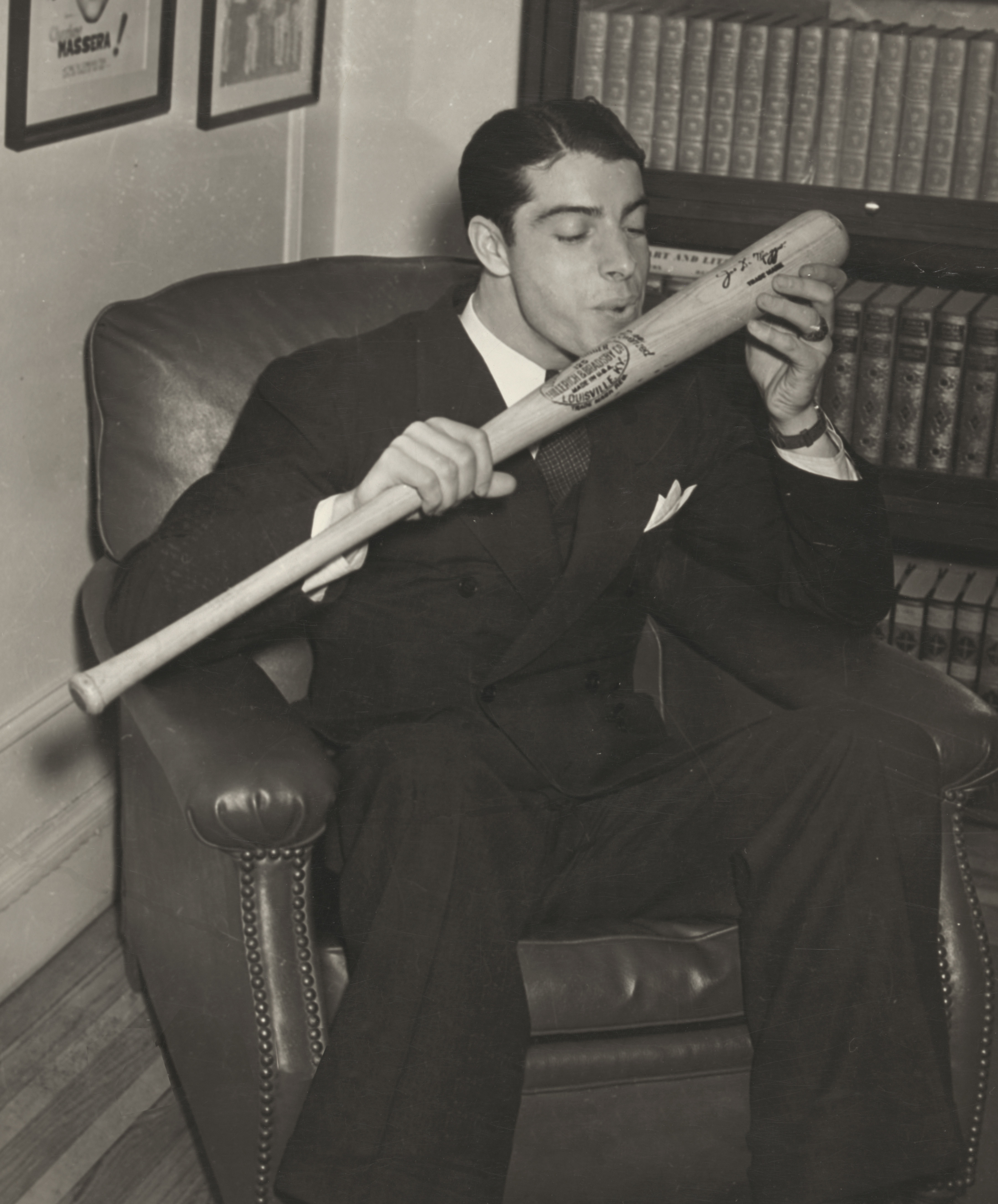 Photograph shows Joe DiMaggio, of the New York Yankees, wearing suit, sitting in a chair, facing slightly right, about to kiss his signature baseball bat.